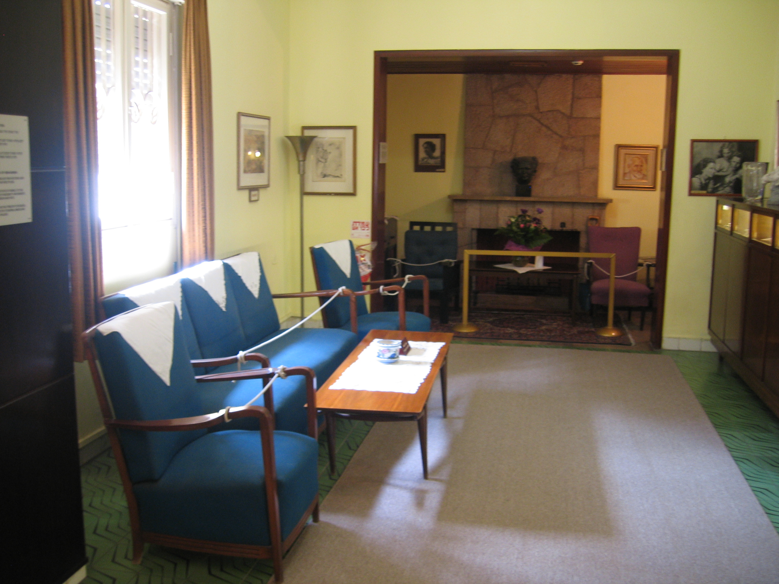 David Ben Gurion's House at Tel Aviv-Yaffo